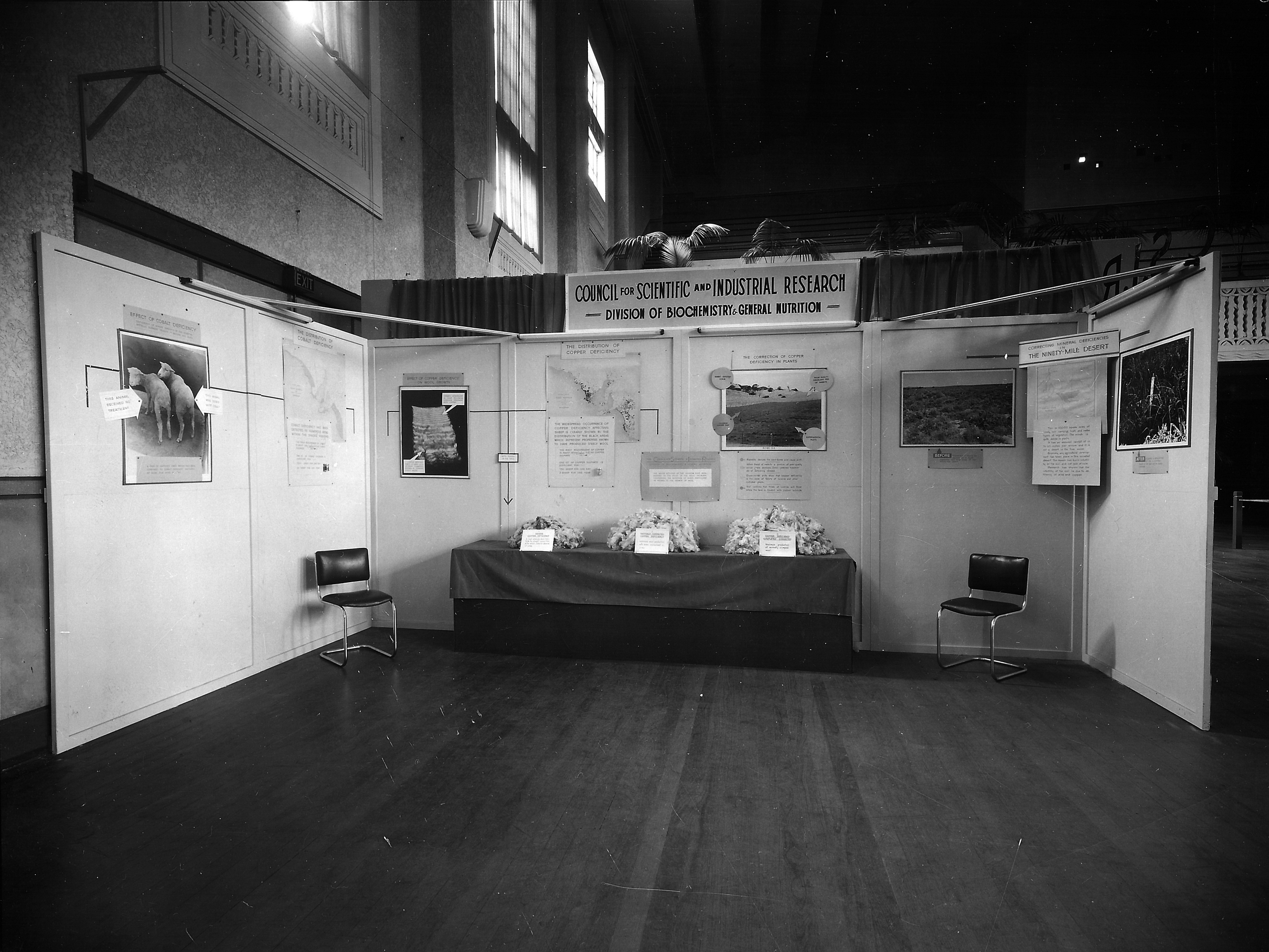 Display by CSIR (Council for Scientific and Industrial Research) Division of Biochemistry and General Nutrition in Centennial Hall, Royal Adelaide Show, Wayville, 1949. Highlights research on copper and cobalt deficiency in sheep, the Ninety-Mile Desert and fleece production.Centennial Hall was demolished in July 2007.